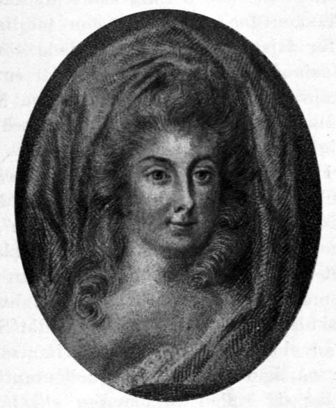 Swedish opera singer and actress.